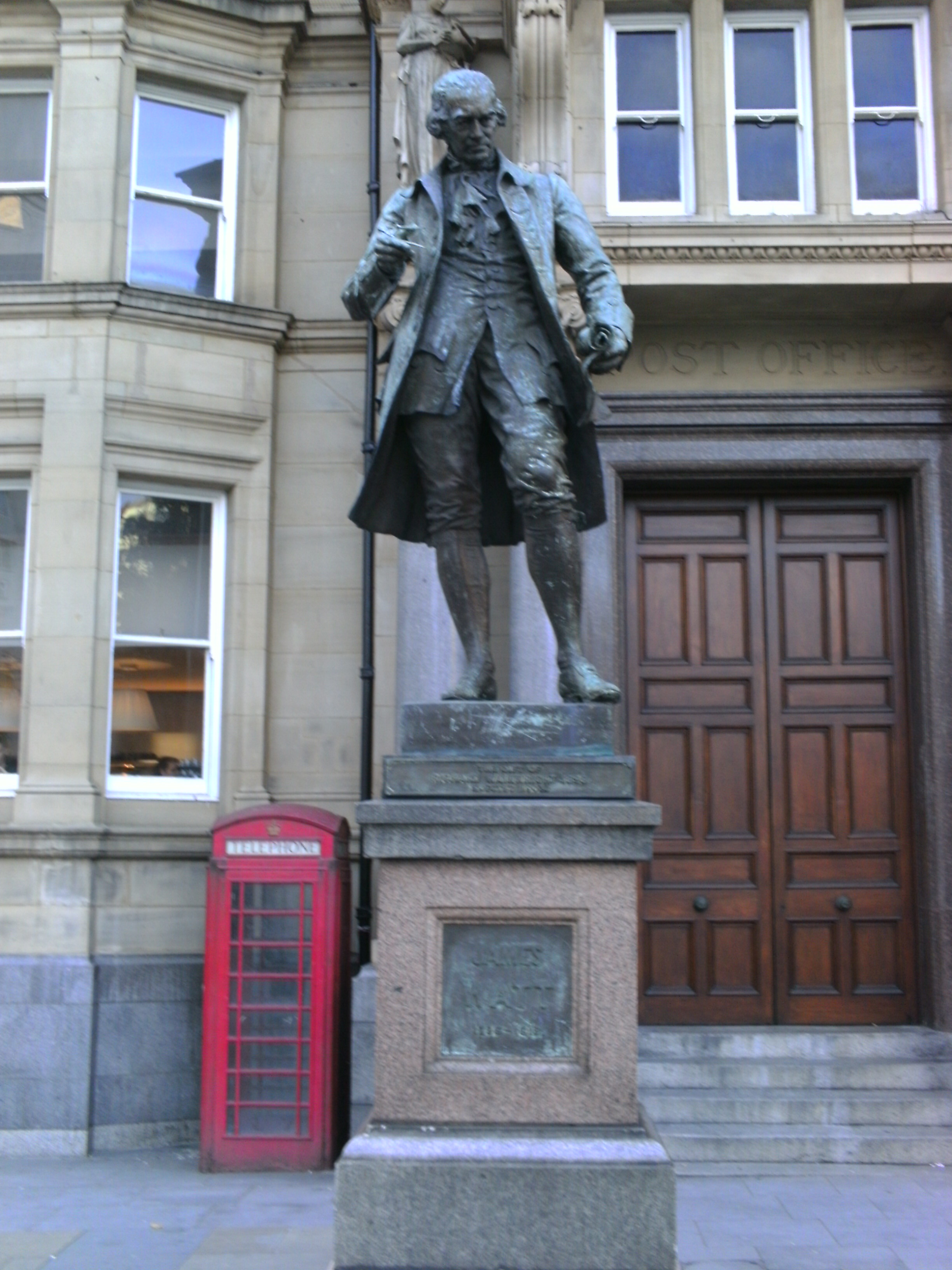 Statue of James Watt on Leeds City Square